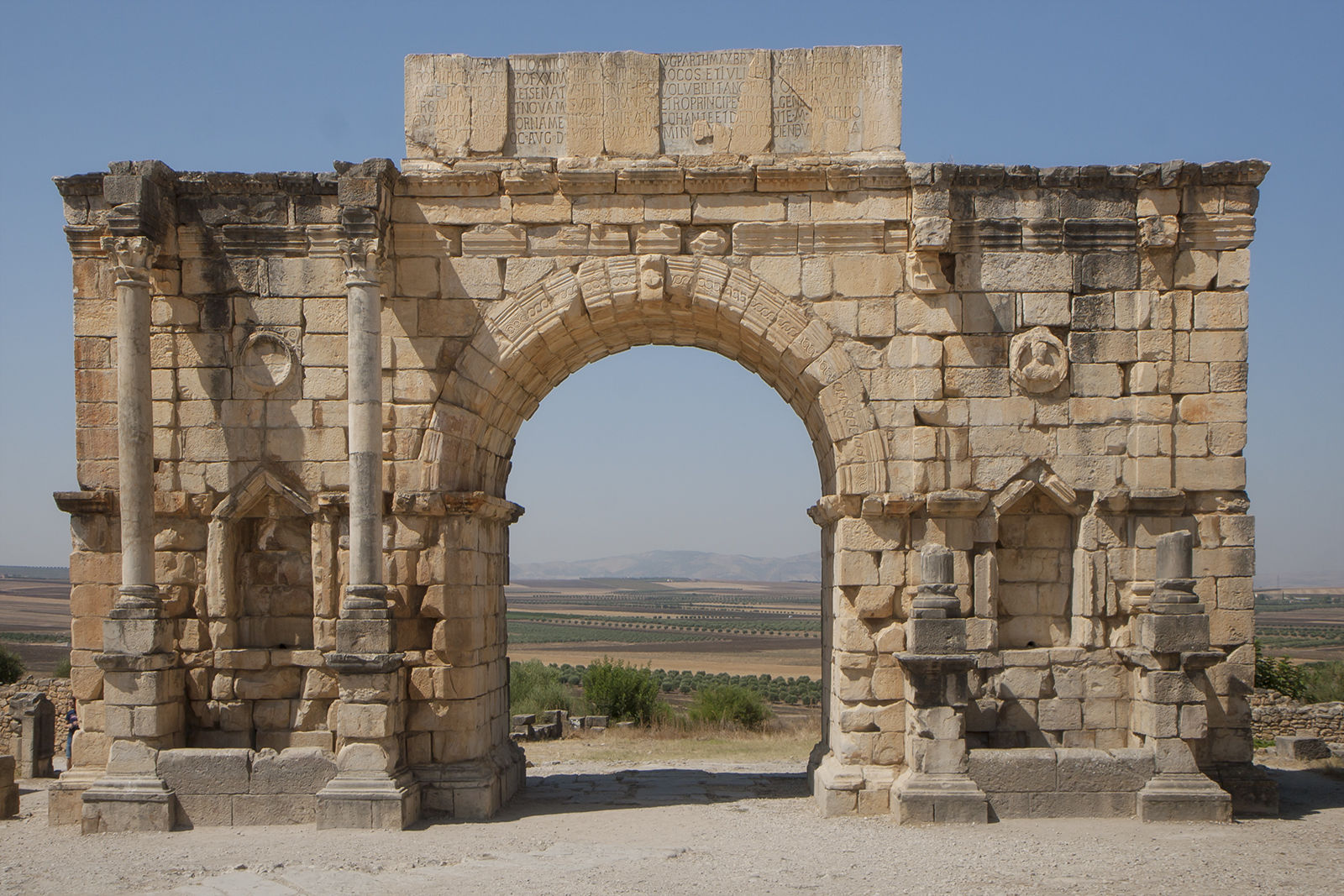 The triumphal arch built in honor of the emperor Caracalla.